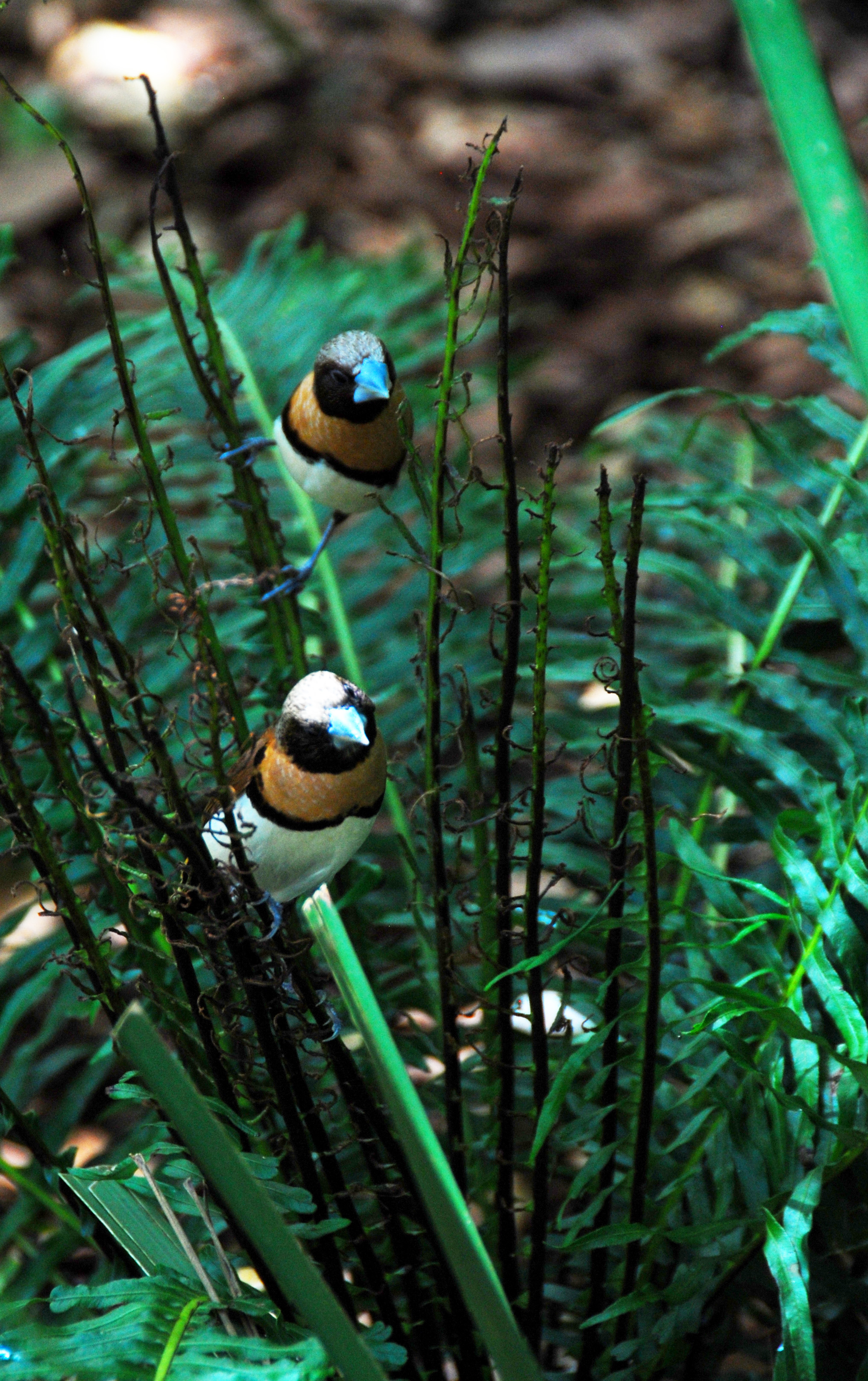 Two Chestnut-breasted Munias (also known as the Chestnut-breasted Mannikins) at Australia Zoo, Beerwah, Queensland, Australia.